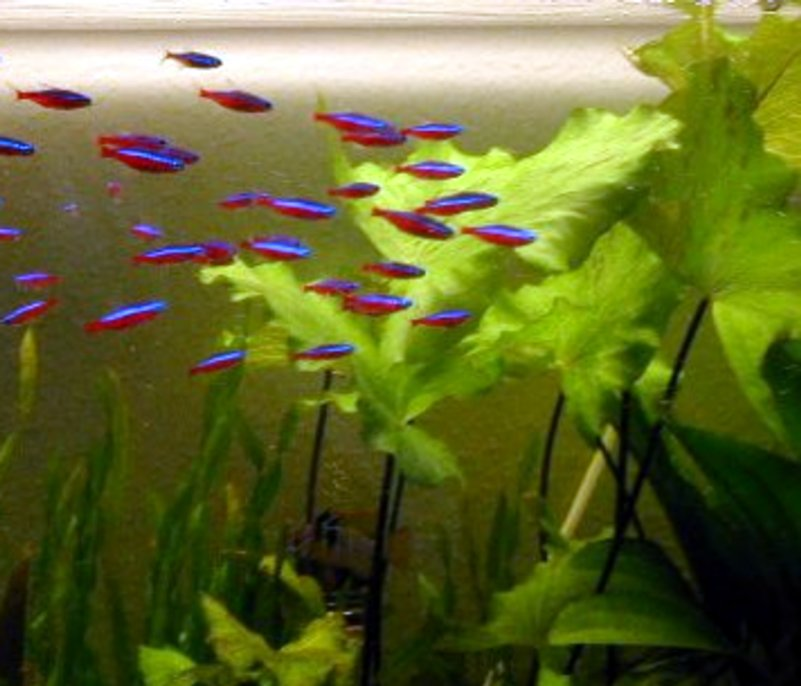 A shoal of cardinal tetras (Paracheirodon axelrodi) in an aquarium. Original photo by User:Wing at Image:Aquarium2.jpg (misidentified as neon tetras).